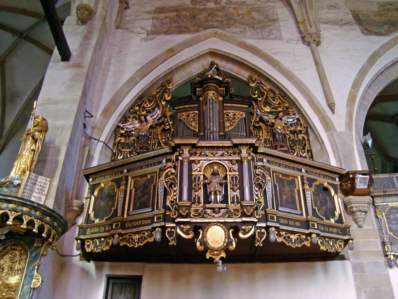 Malý organ v Konaktedrále sv. Mikuláša v Prešove